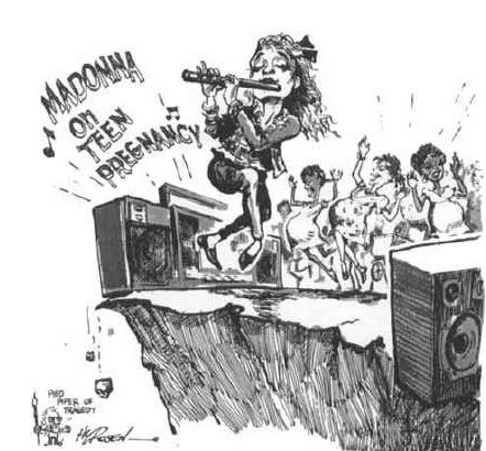 A Madonna's cartoon on "Papa Don't Preach"